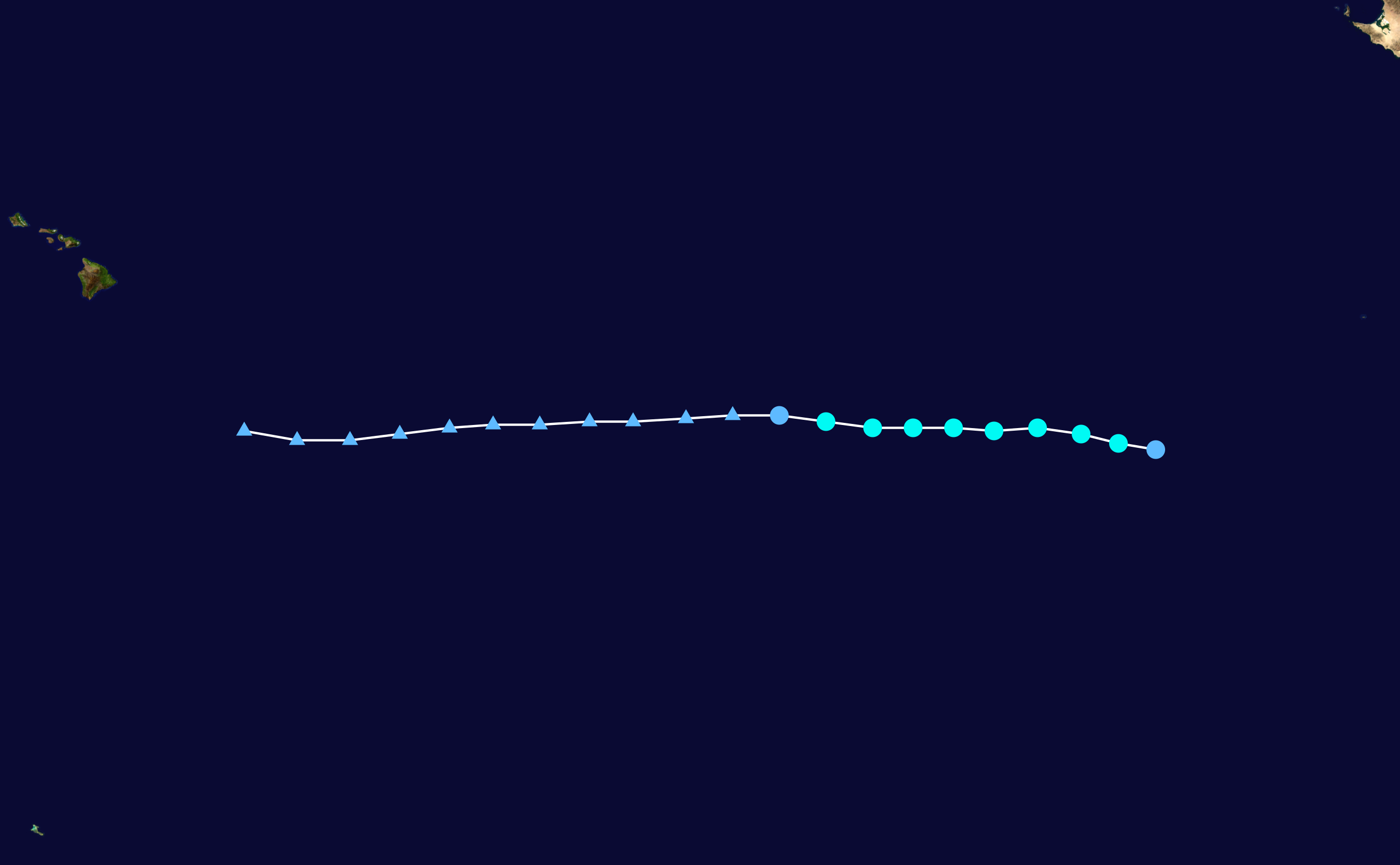 Track map of Tropical Storm Fabio of the 2006 Pacific hurricane season. The points show the location of the storm at 6-hour intervals. The colour represents the storm's maximum sustained wind speeds as classified in the Saffir–Simpson scale (see below), and the shape of the data points represent the nature of the storm, according to the legend below. Saffir–Simpson scale Tropical depression≤38 mph≤62 km/h Category 3111–129 mph178–208 km/h Tropical storm39–73 mph63–118 km/h Category 4130–156 mph209–251 km/h Category 174–95 mph119–153 km/h Category 5≥157 mph≥252 km/h Category 296–110 mph154–177 km/h Unknown Storm type Tropical cyclone Subtropical cyclone Extratropical cyclone / Remnant low / Tropical disturbance / Monsoon depression